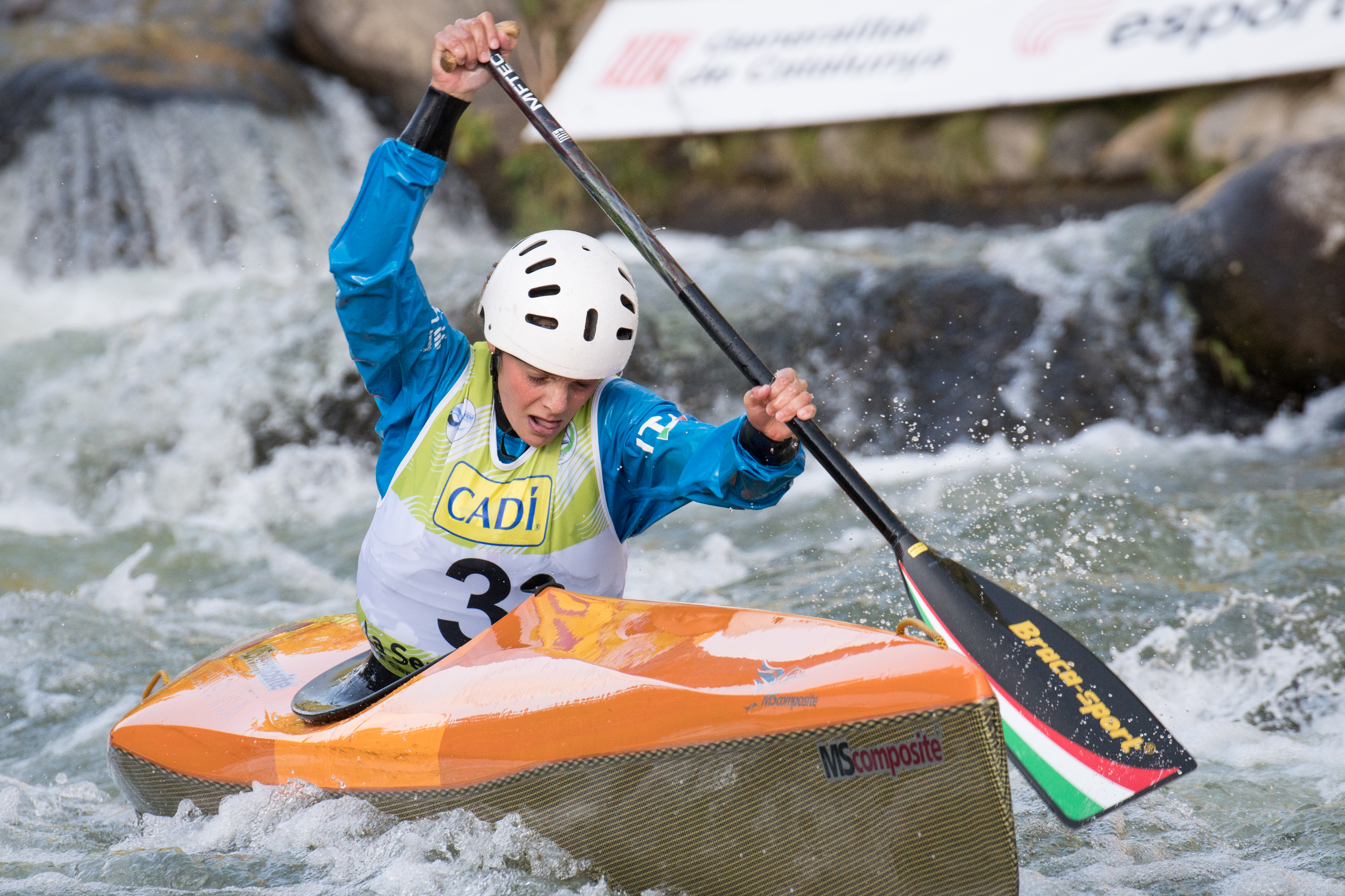 Cecilia Panato during the 2019 Canoe Wildwater World Championships in La Seu d'Urgell, Spain.